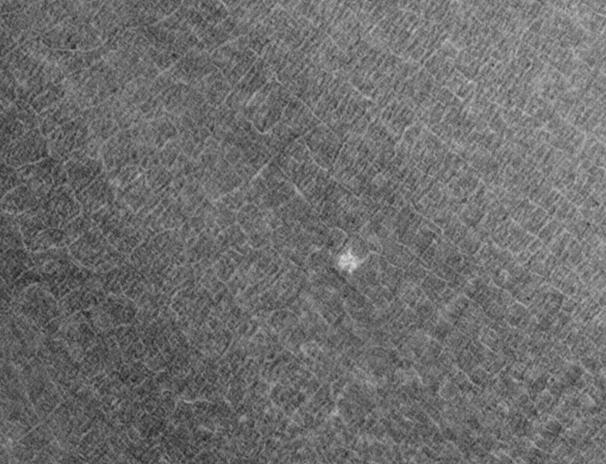 A small portion of the interior of Lomonosov Crater showing patterned ground, as seen by MGS. Location is 64.5 degrees north latitude and 352.6 degrees east longitude. This image was taken with the Mars Orbital Camera MOC) on the Mars Global Surveyor (MGS). The photo credit is Malin Space Science Systems/NASA.